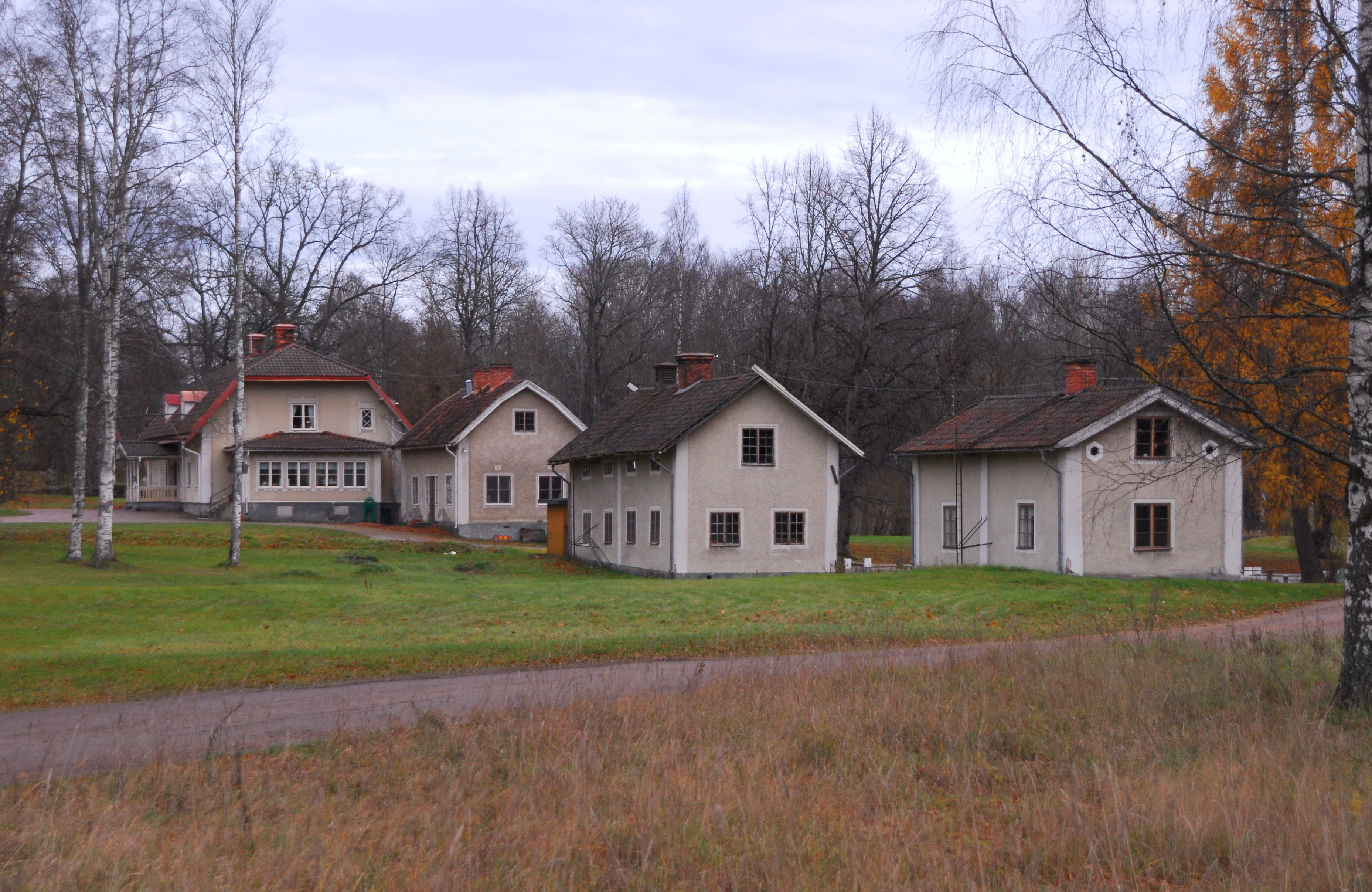 Bruksparken, Horndals bruk, Avesta Municipality, Sweden.